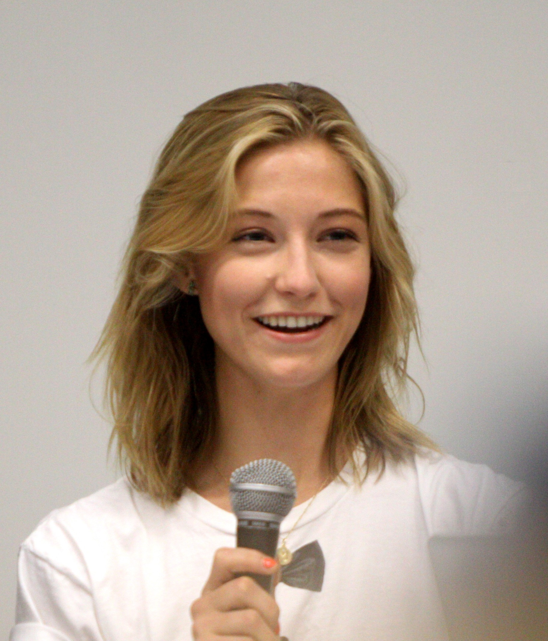 Caitlin Gerard speaking at VidCon 2012 at the Anaheim Convention Center in Anaheim, California.